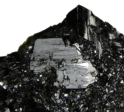 Cassiterite Locality: Botallack Mine, Botallack, Botallack - Pendeen Area, St Just District, Cornwall, England, UK (Locality at ) Size: 6.1 x 4.6 x 1.7 cm. An attractive Cassiterite specimen from Cornwall with bright, lustrous, jet-black twinned crystals. The piece is from the collection of Richard Kosnar and his hand-written label is glued to the back. The label states that the piece was received in trade from a museum in Prague, and there is a small white label with the number "2352" on the reverse side of the piece.